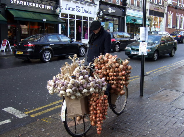 Onion seller in Heath Street This man stationed himself on the pavement at the entrance to Flask Walk and remained there for the whole of a cold winter's day, anticipating, one imagines, that Hampstead cuisine demands plenty of garlic. These French vendors have been banned selling at local Farmers' Markets since they only possess pedlars' licences.